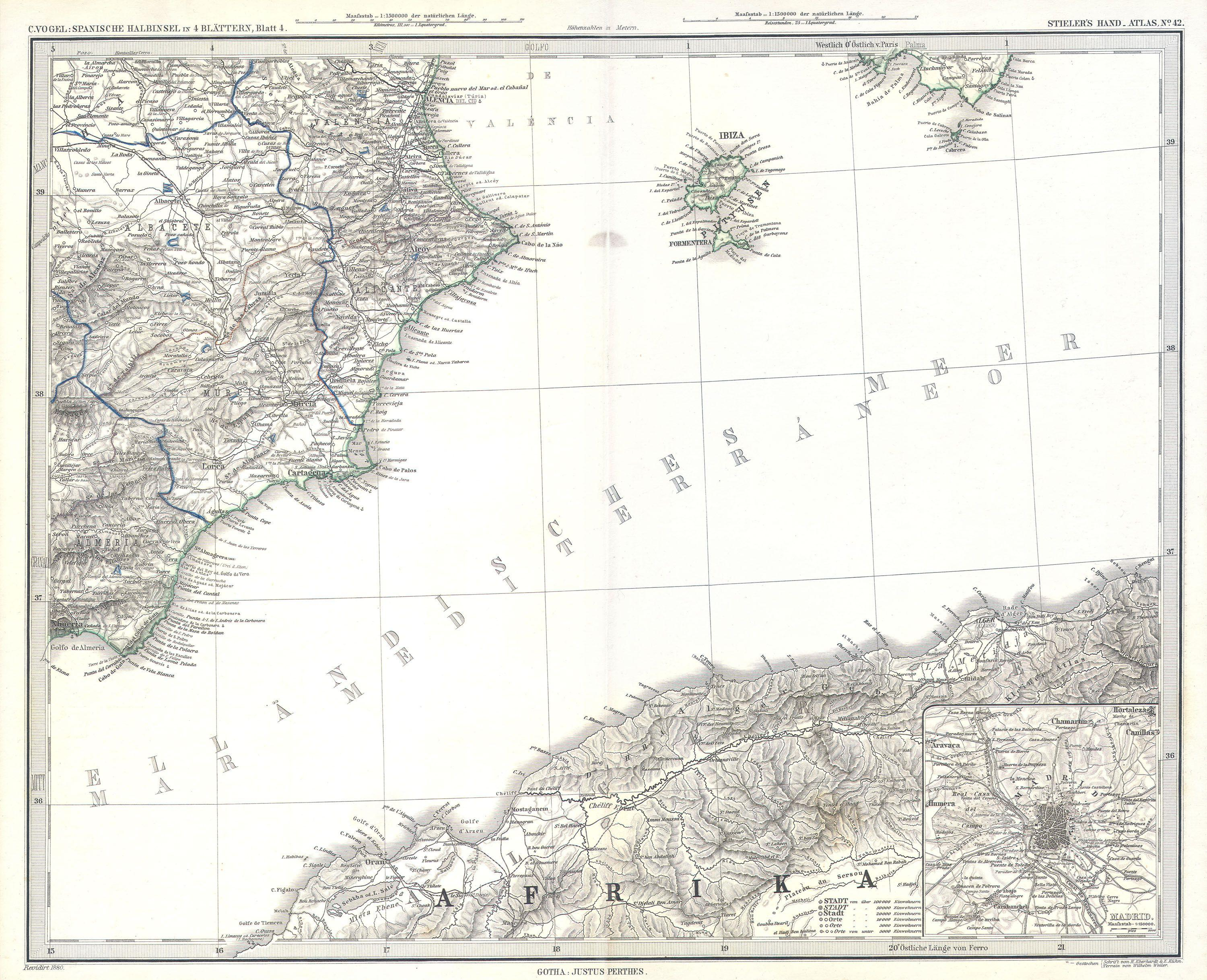 This fascinating hand colored map depicts the coasts of Spain, Morocco and Algeria, and parts of the Balearic Islands. Prominently depicts the popular resort Island of Ibiza. All text is in German. Issued in the 1870 edition of Stieler’s Hand Atlas.